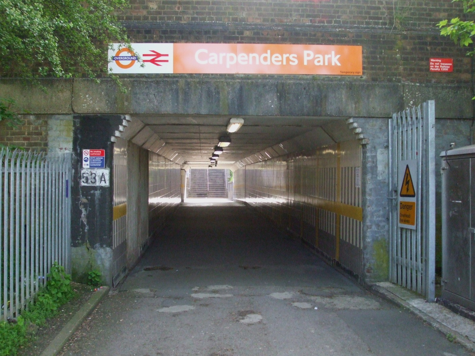 Carpenders Park station eastern entrance